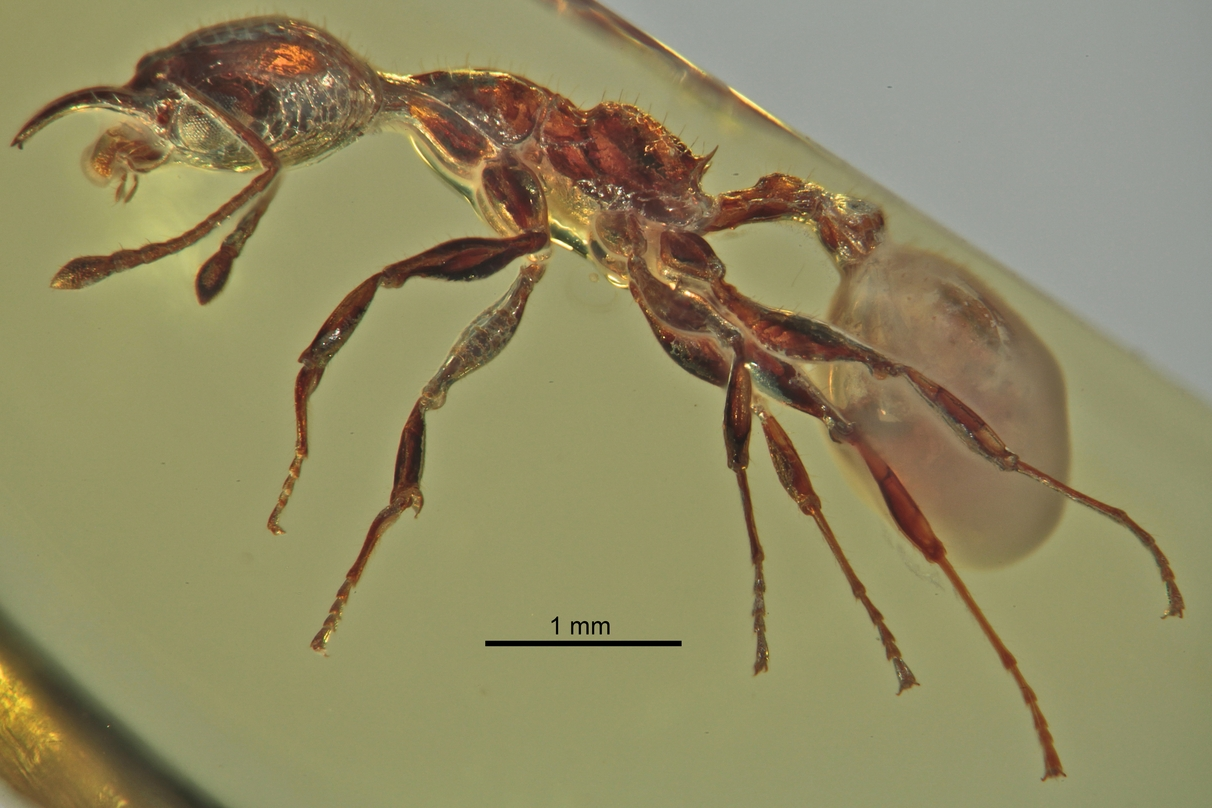 Profile view of a Electromyrmex klebsi worker. Baltic Amber, Middle Eocene; Lithuania, Baltic Region, Europe. Geosciences Rennes, University of Rennes, specimen IGRBA010